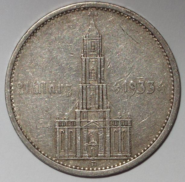 Potsdam church with 21. März 1933, mintmark A